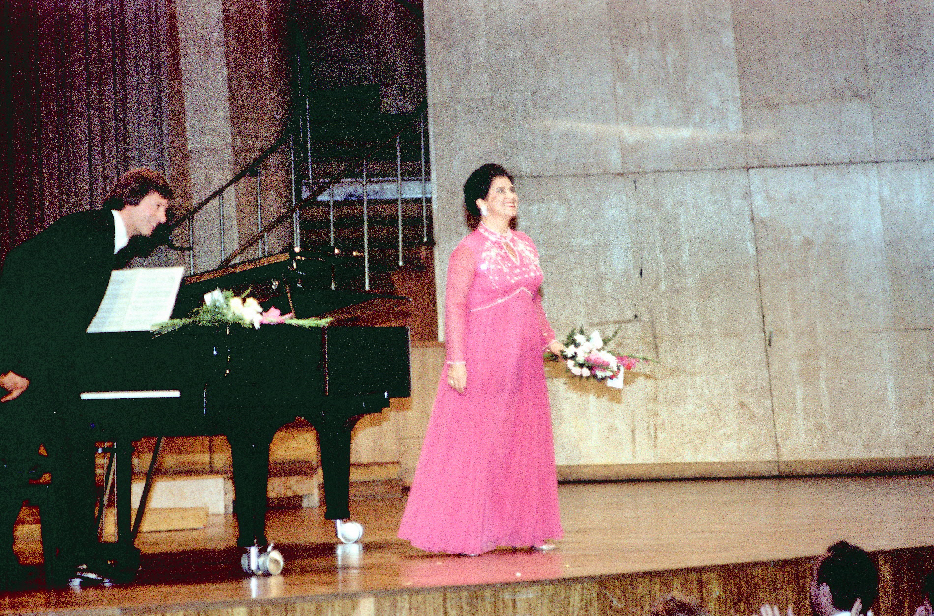 Elly Ameling and Rudolf Jansen at a concert in Gothenburg September 24th 1983.